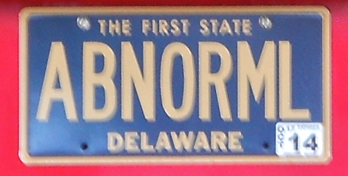 Mustang automobile in Delaware with a Delaware plate reading "ABNORML"